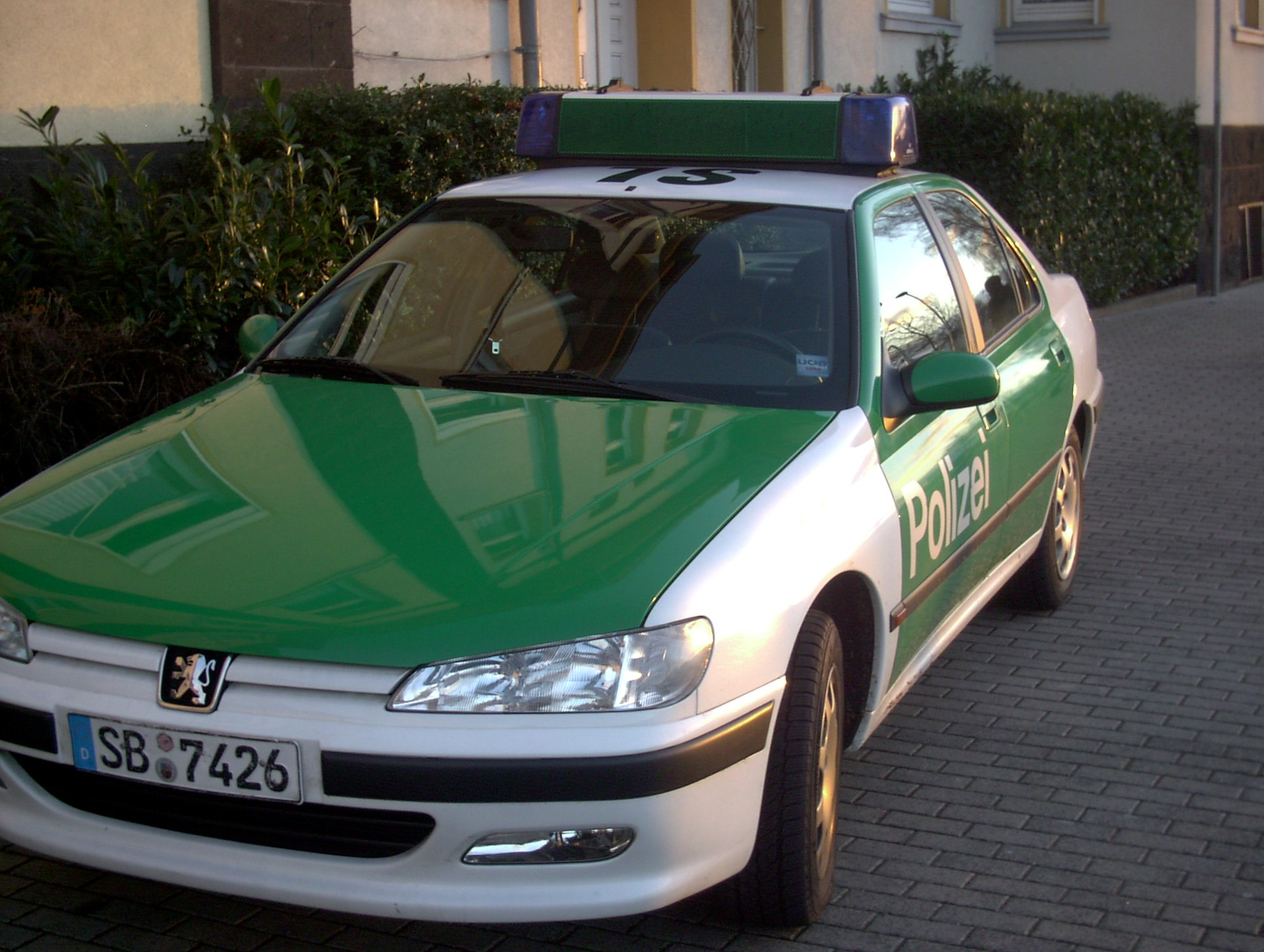 Police cars of the German federal state Saarland.